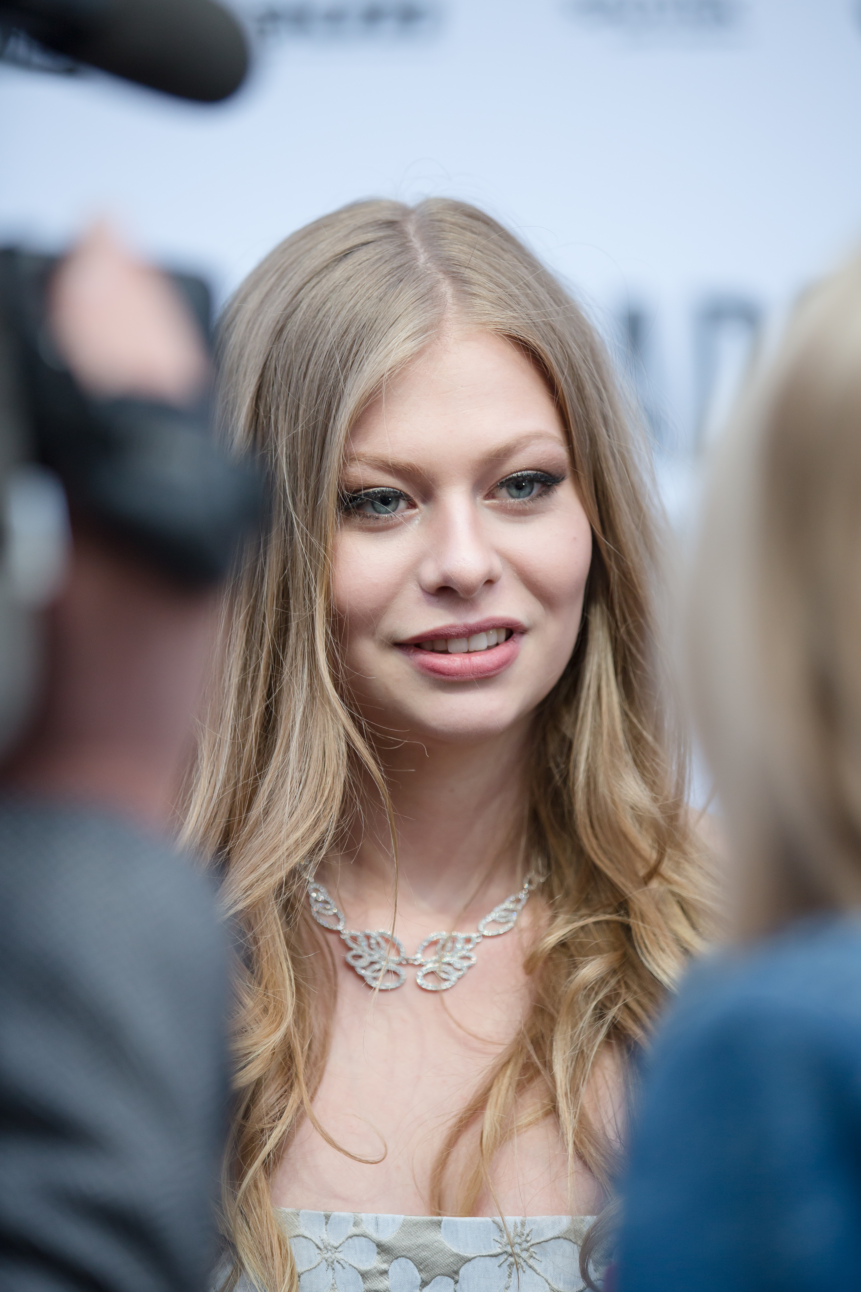 Zoë at the Amadeus Austrian Music Award 2015 at Volkstheater in Vienna